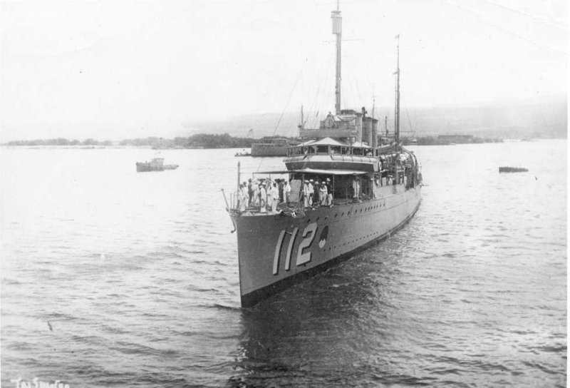 The U.S. Navy destroyer USS Ludlow (DD-112) in the 1920s. Note the mine force emblem on the bow.